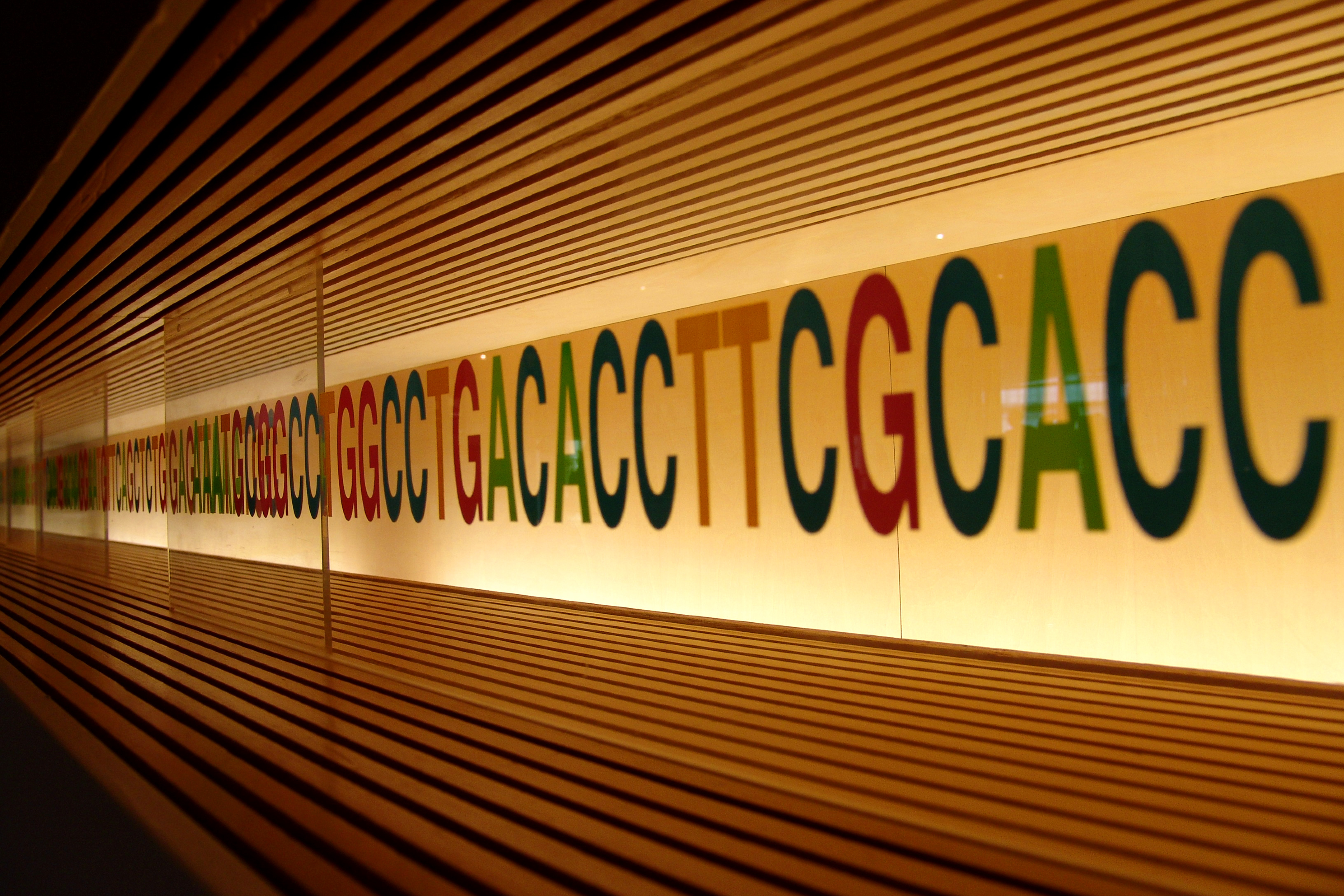 DNA sequence at the National Museum of Emerging Science and Innovation, Miraikan.